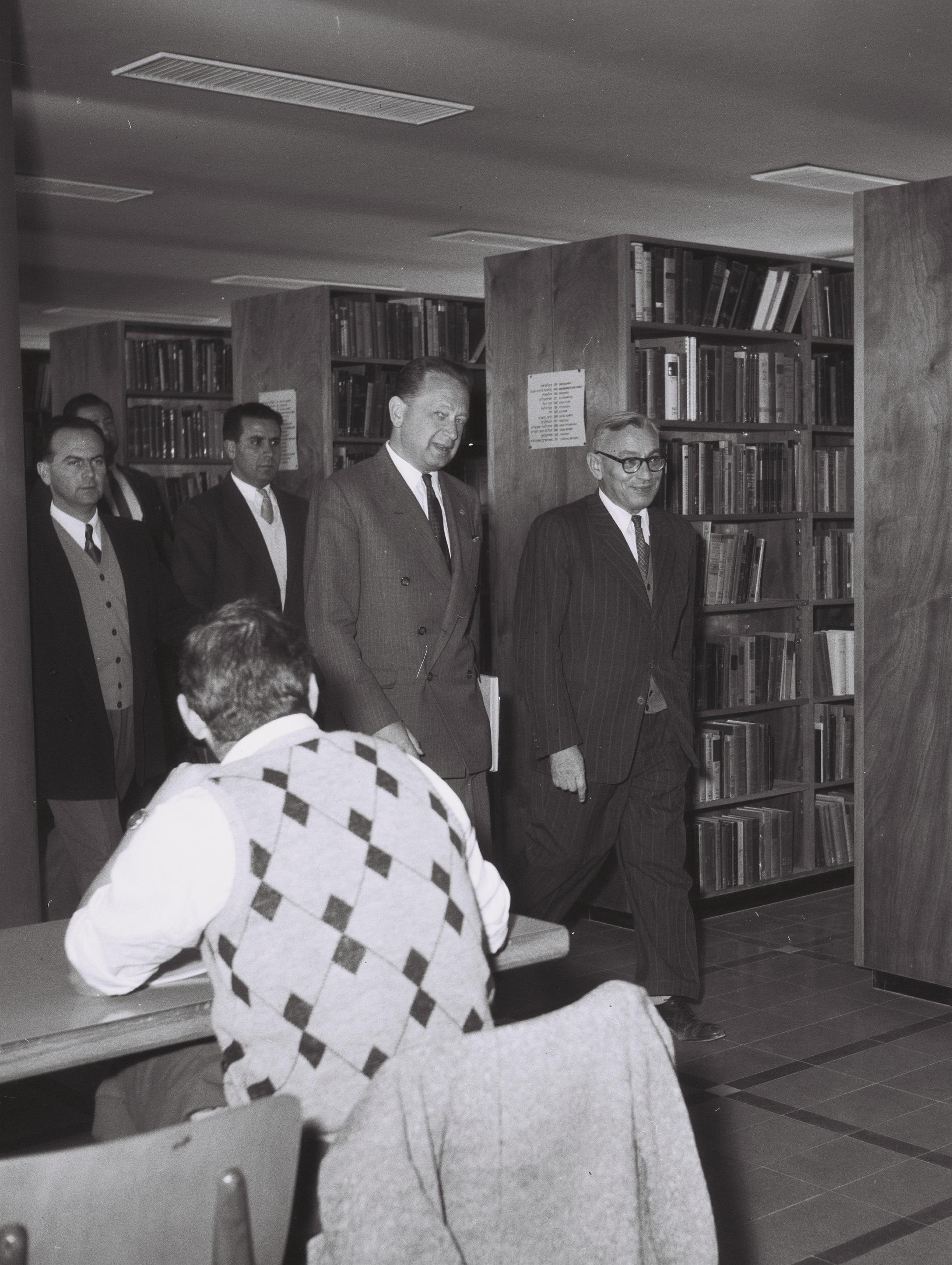 Prof. Benjamin Mazar accompaning Dag Hammarskjold on a visit to the Hebrew University library. Jerusalem, 1959